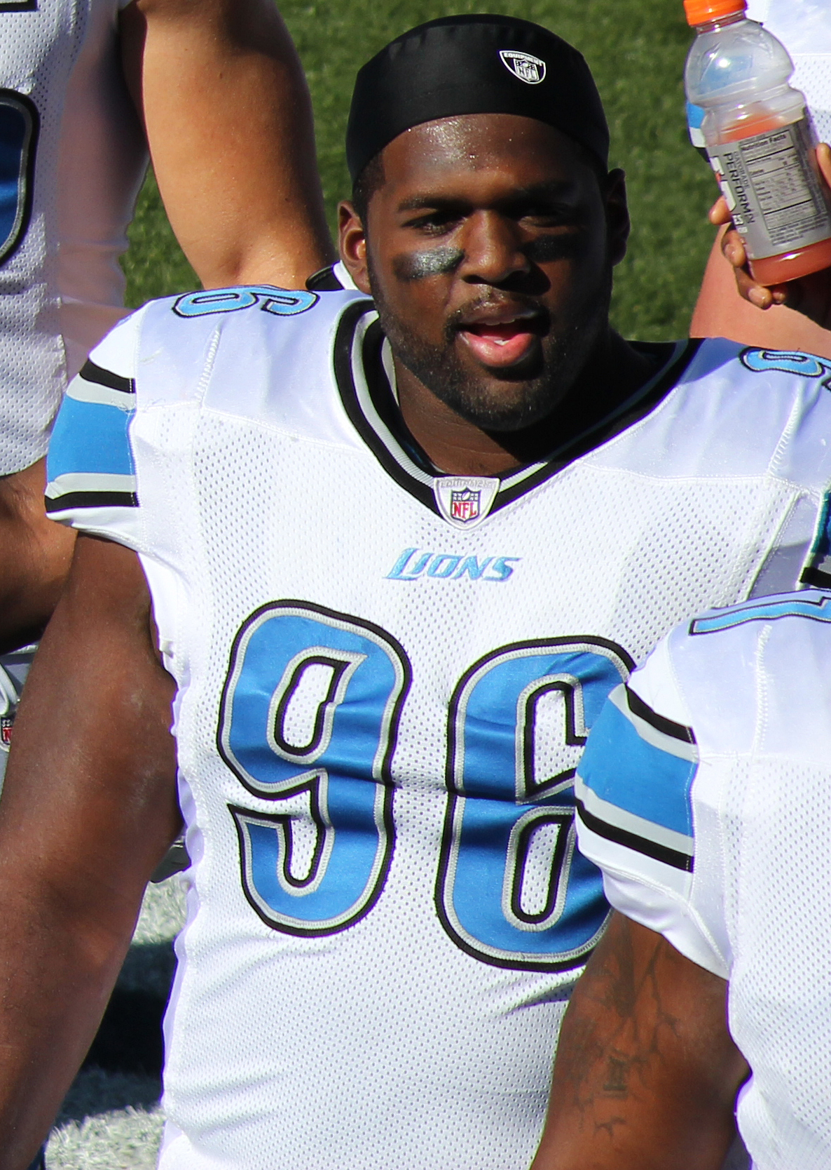 Andre Fluellen, a National Football League player.